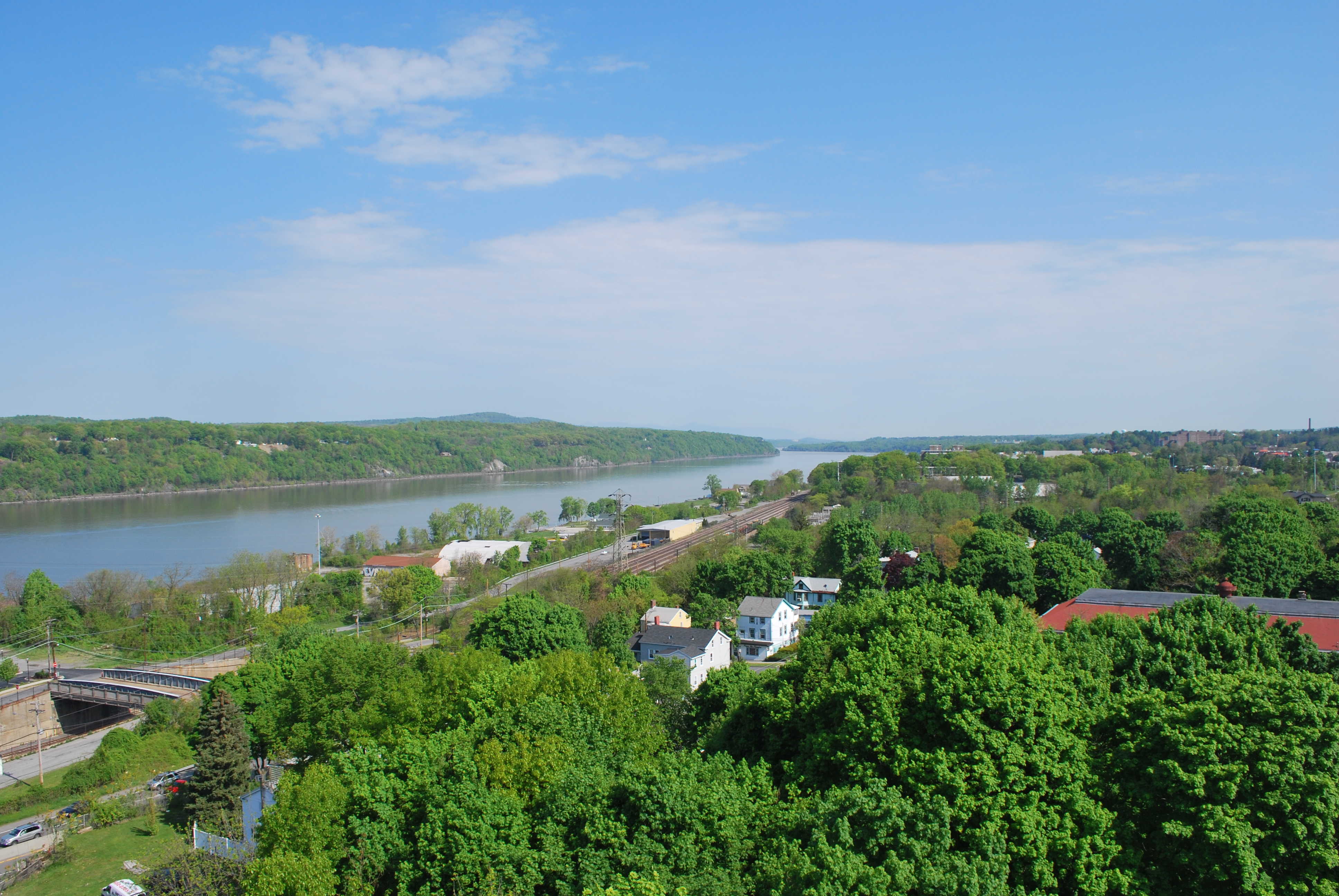 Bird's-eye view of Poughkeepsie, New York from the Walkway Over the Hudson. The Hudson River is visible in the background.